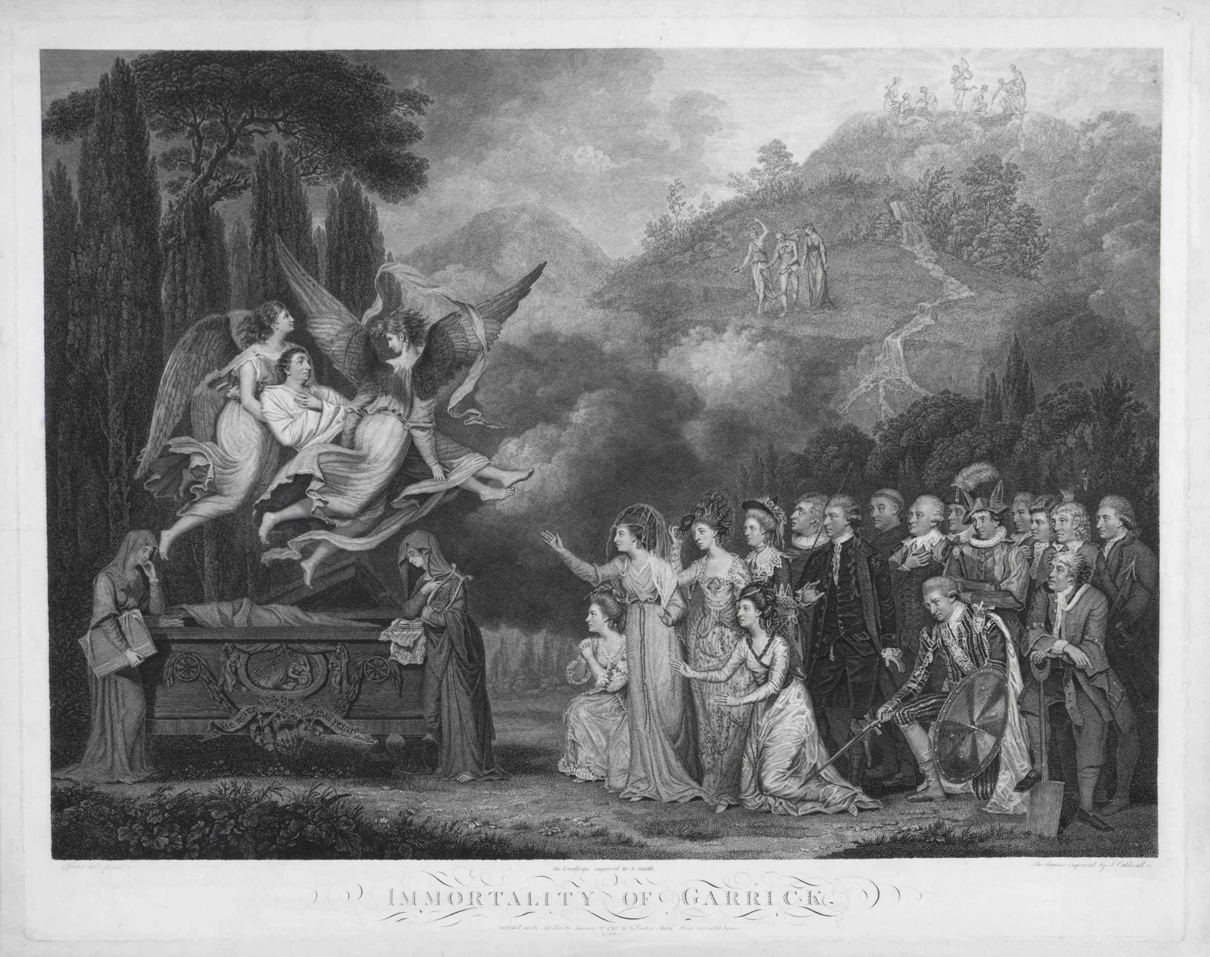 Immortality of Garrick, by James Caldwall (died 1822), published 1783, given to the National Portrait Gallery, London in 1872. All images in this batch have been confirmed as author died before 1939 according to the official death date listed by the NPG.